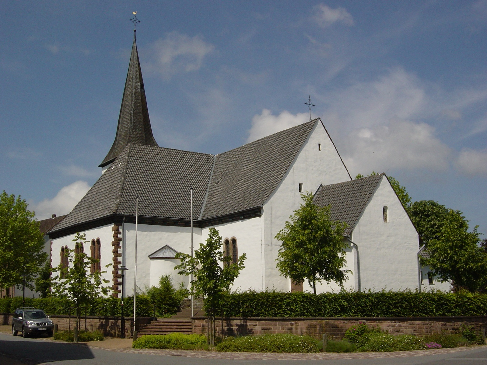 St. Anna Church in Fürstenau, Höxter (Germany)